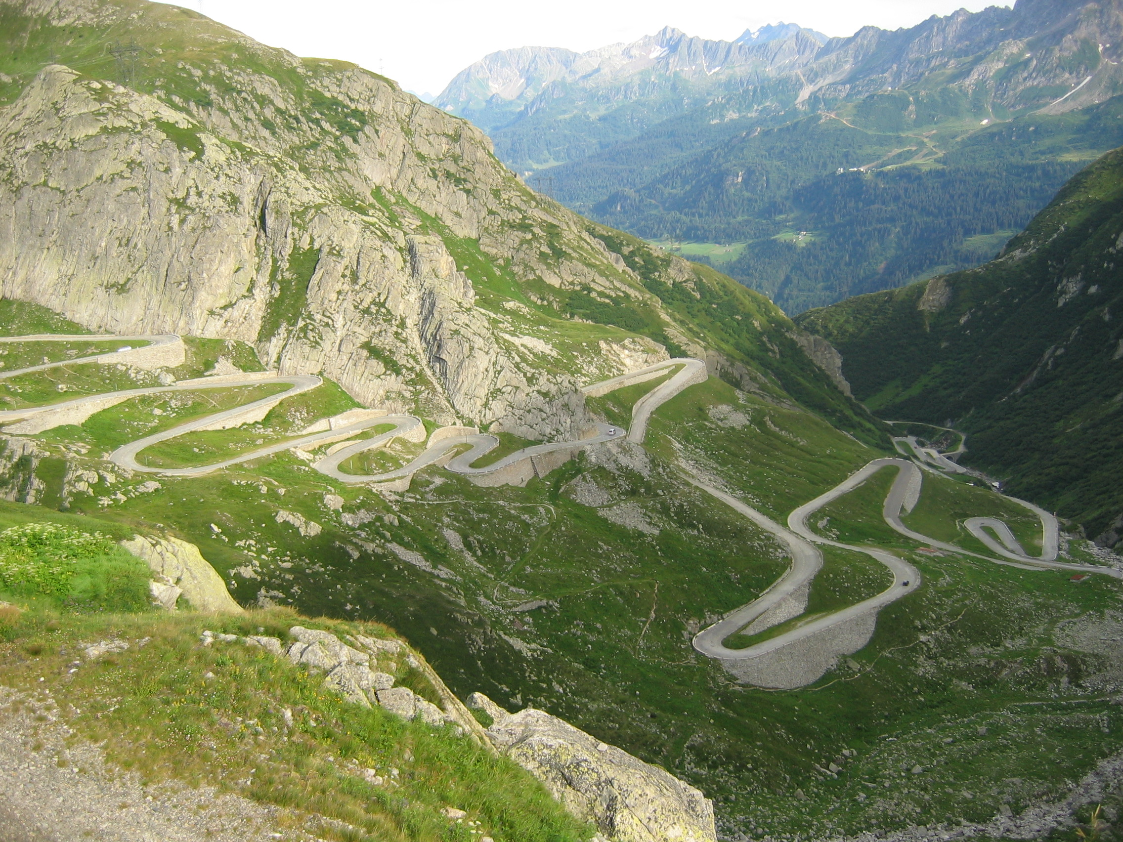 The old road on the southern side of the St. Gotthard pass